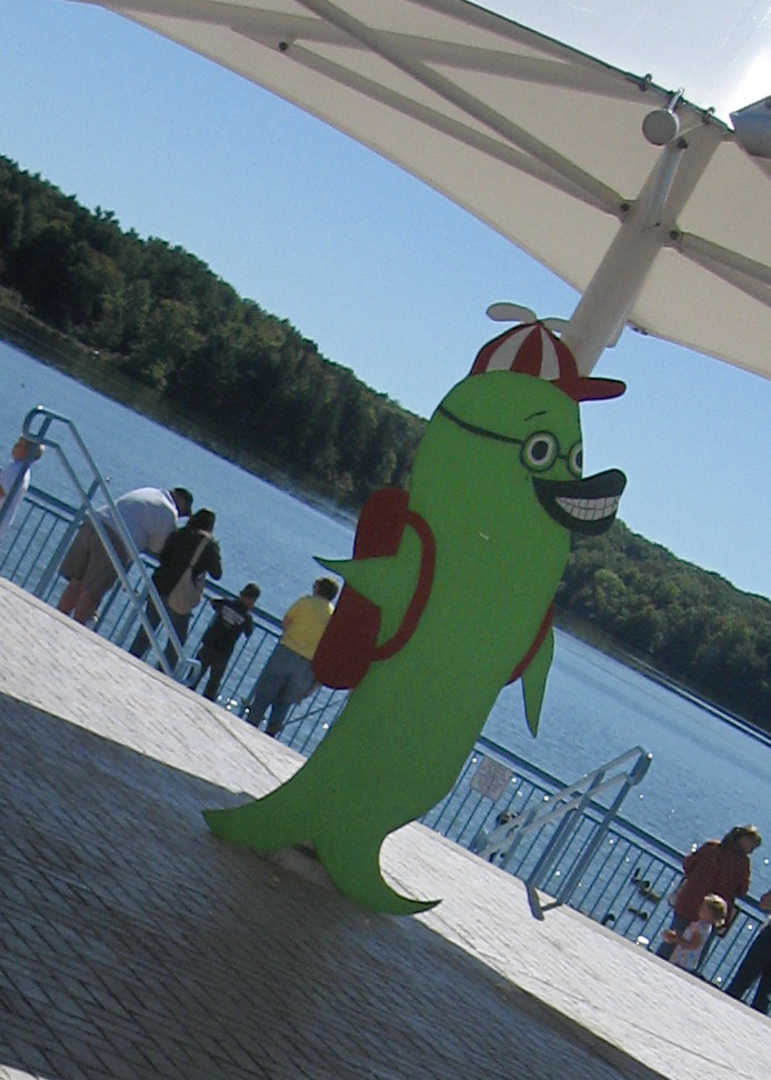 The Spillway